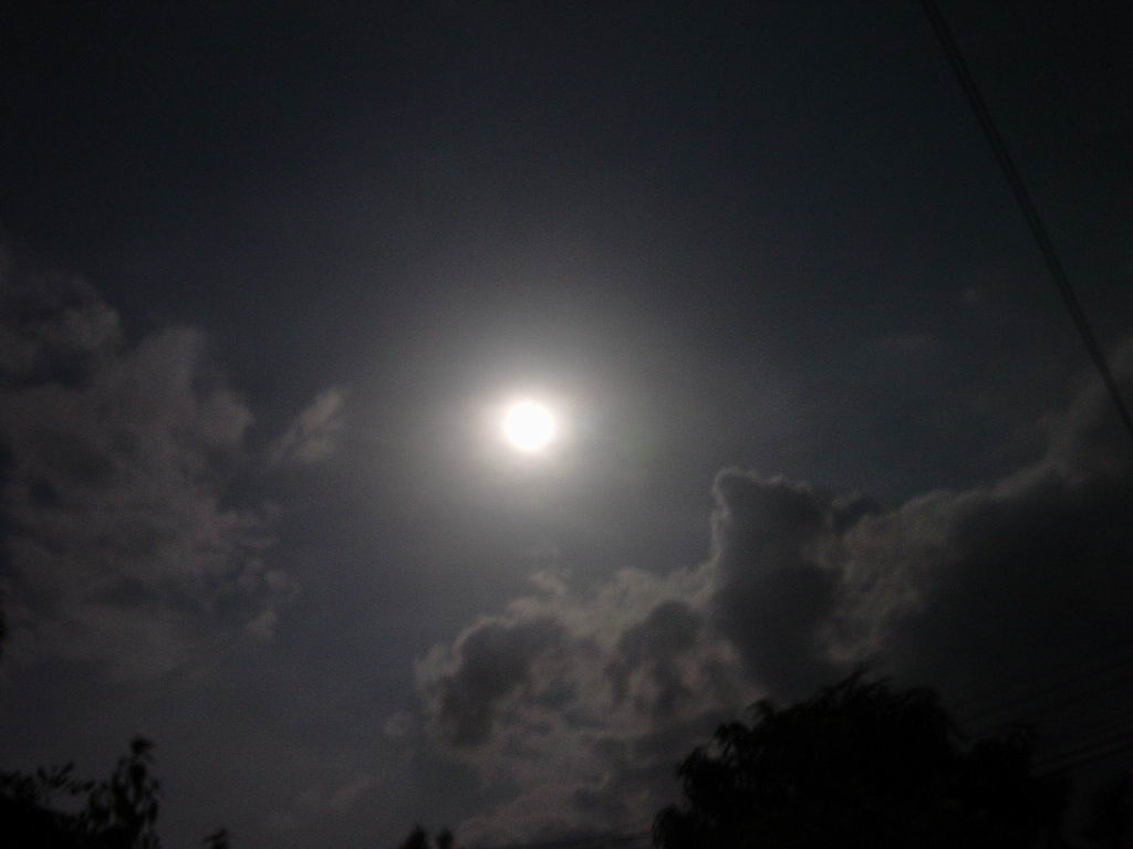 Night sky with moon and clouds, in Thailand (forgotten location, unidentifiable location)